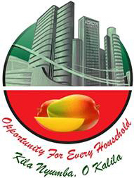 Makueni County Government Logo Kiswahili: Nembo ya Serikali ya Kaunti ya Makueni